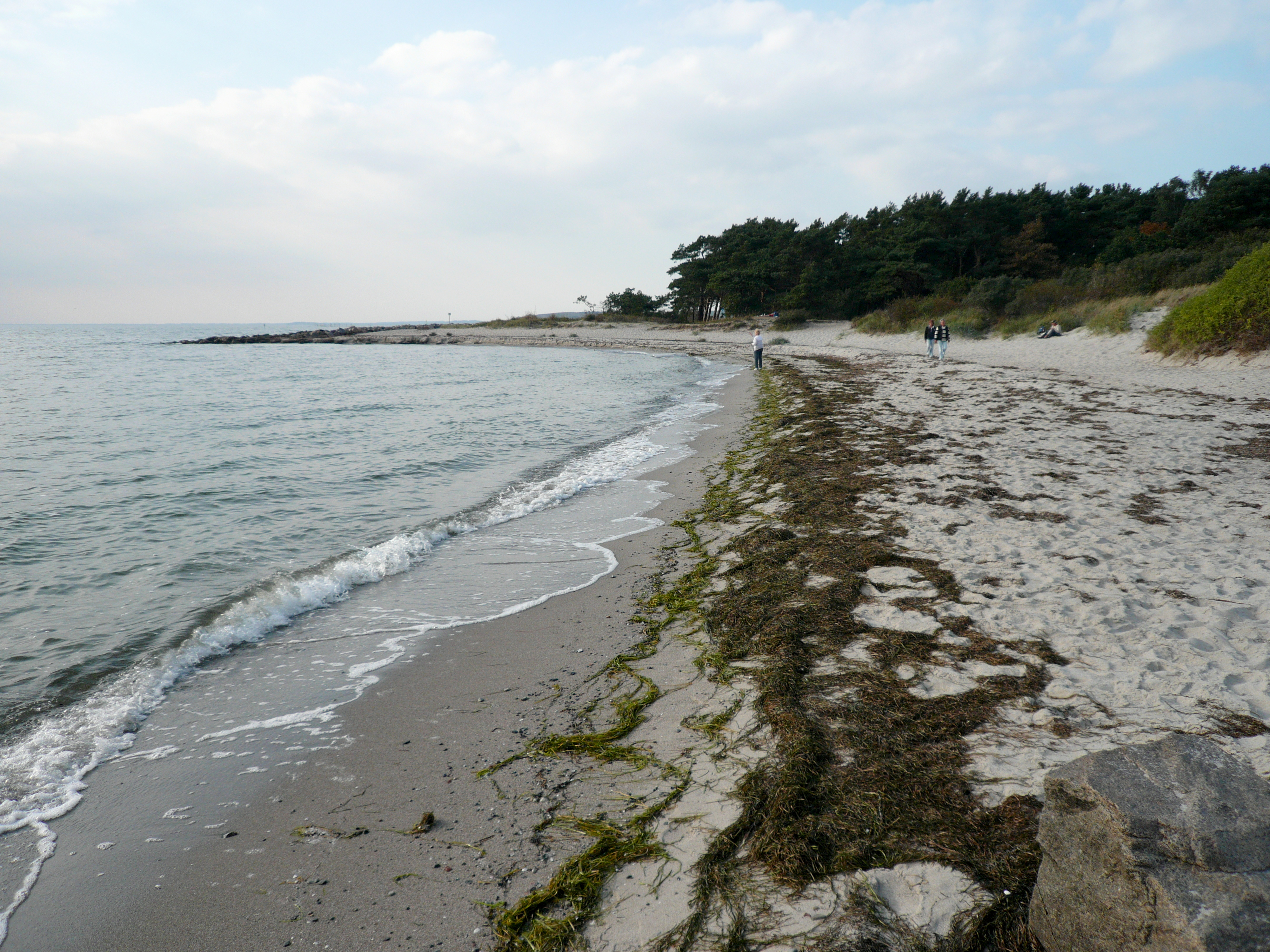 Beach "Endhaken" near Thiessow, Ruegen